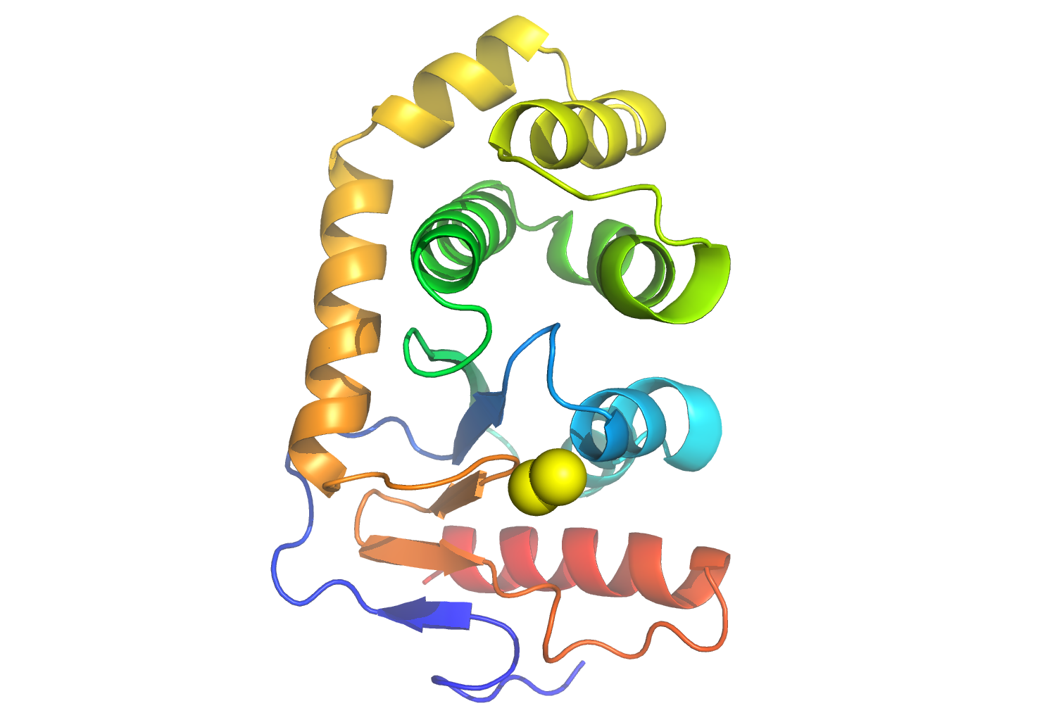 schematic of DsbA, shown with active site disulfide bond as yellow sphere